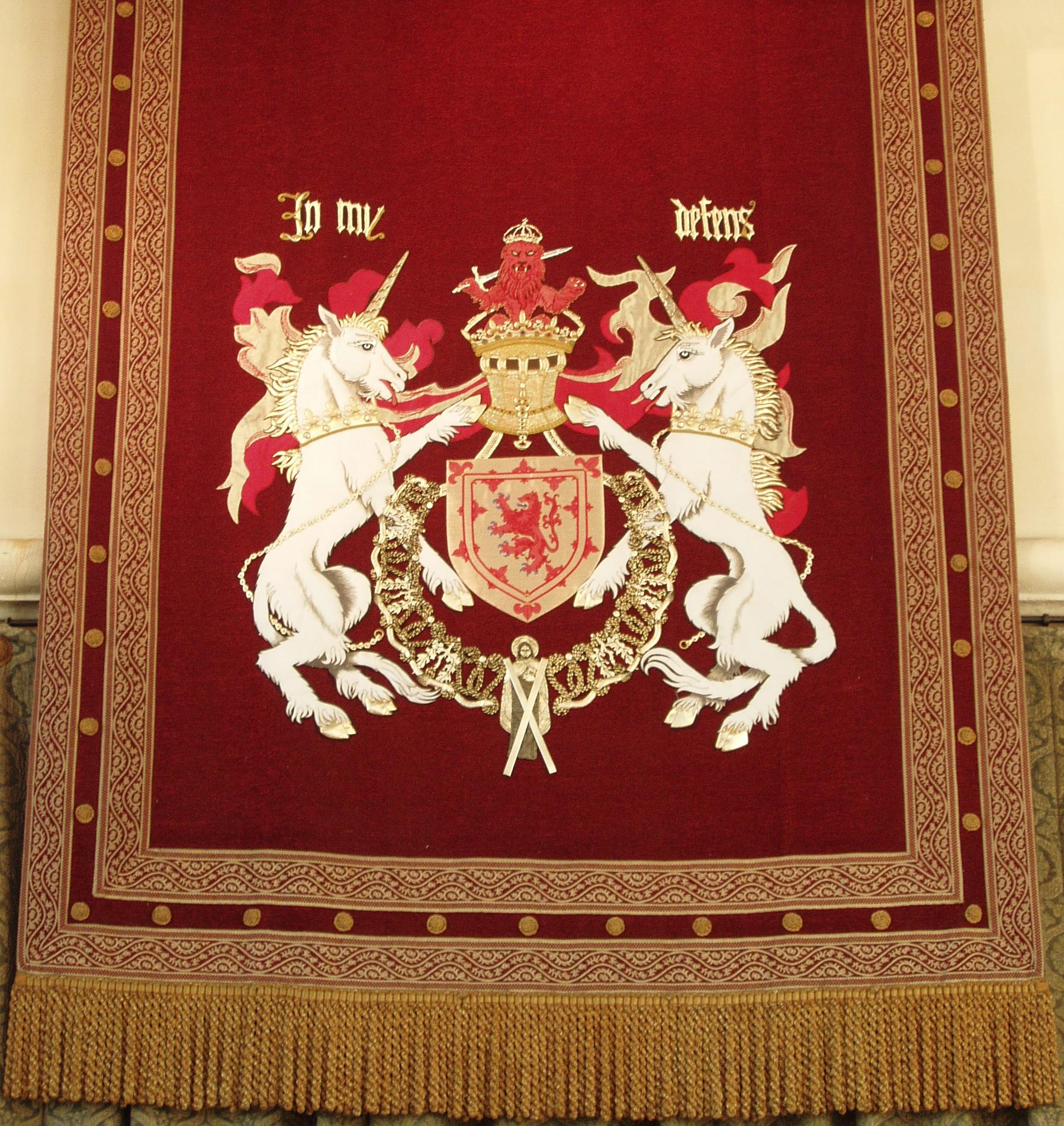 Detail of an embroidered wall hanging in the Great Hall of Stirling Castle displaying the Royal coat of arms of James IV, King of Scots.